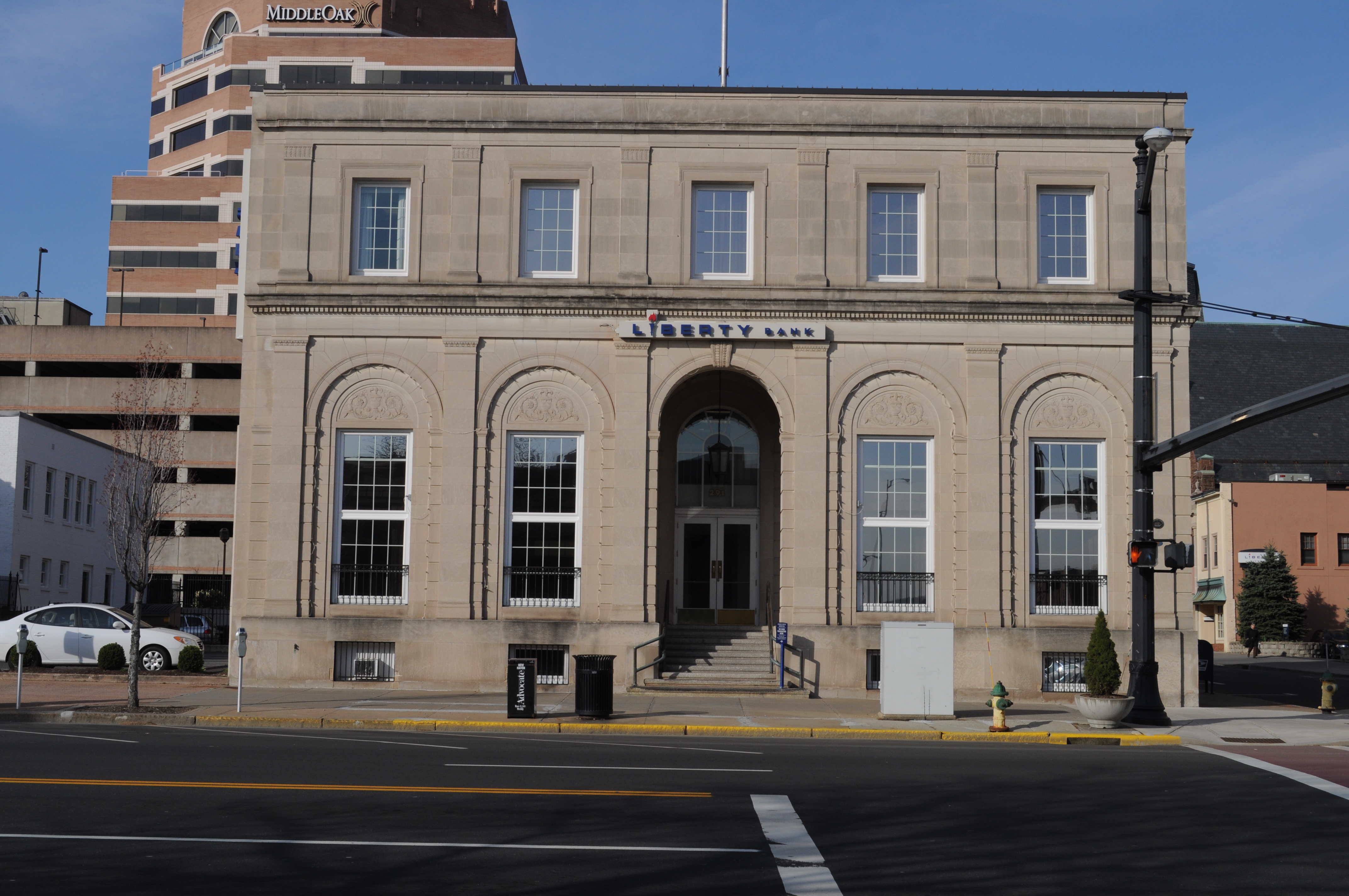 The old Middletown Post Office (now part of the main office of Liberty Bank), 291 Main Street, Middletown, Connecticut, USA. A contributing property of the Main Street Historic District, which is listed on the National Register of Historic Places (Reference # 83001275), and also on the NRHP in its own right (Reference # 82004338).